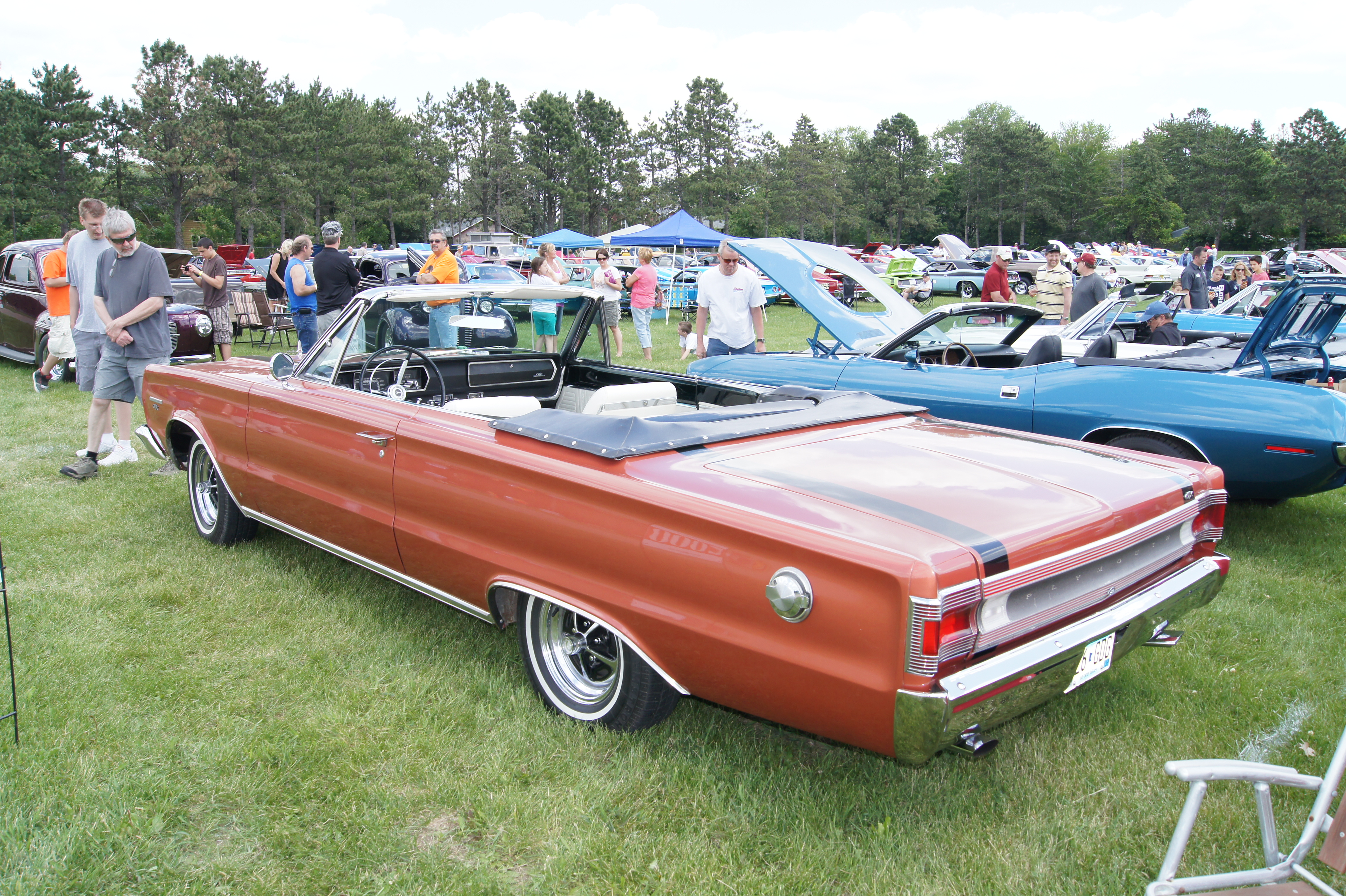 28th Annual Midwest Mopars in the Park June 2, 2012